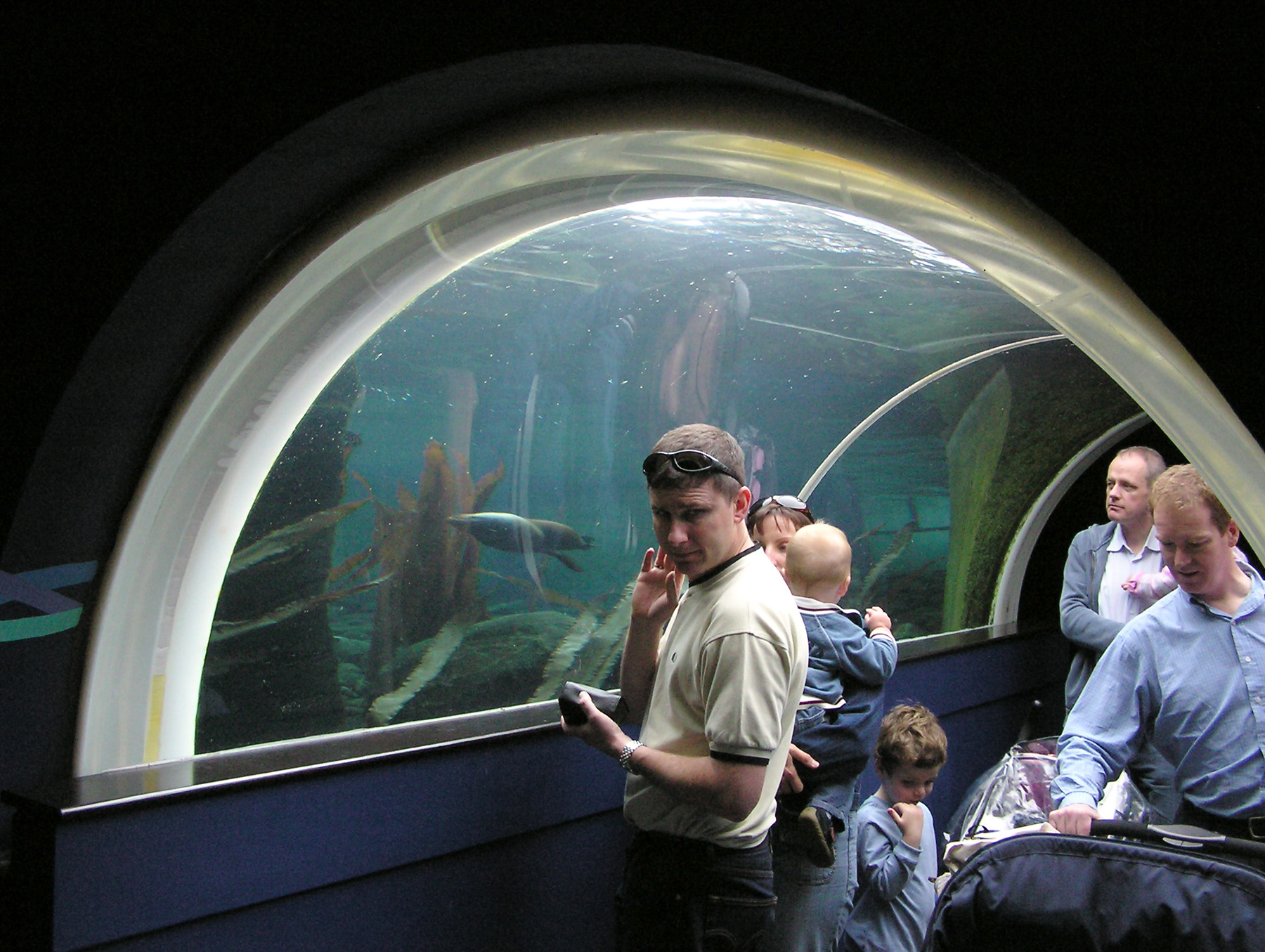 Seal and Penguin Coasts “underwater” tunnel at Bristol Zoo, Bristol, England. A South American fur seal (Arctocephalus australis) is passing.